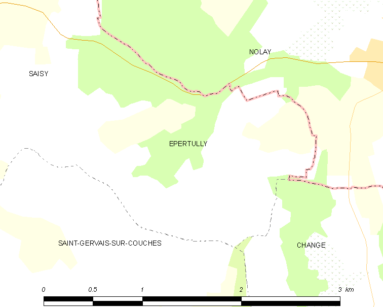 Map of French municipality